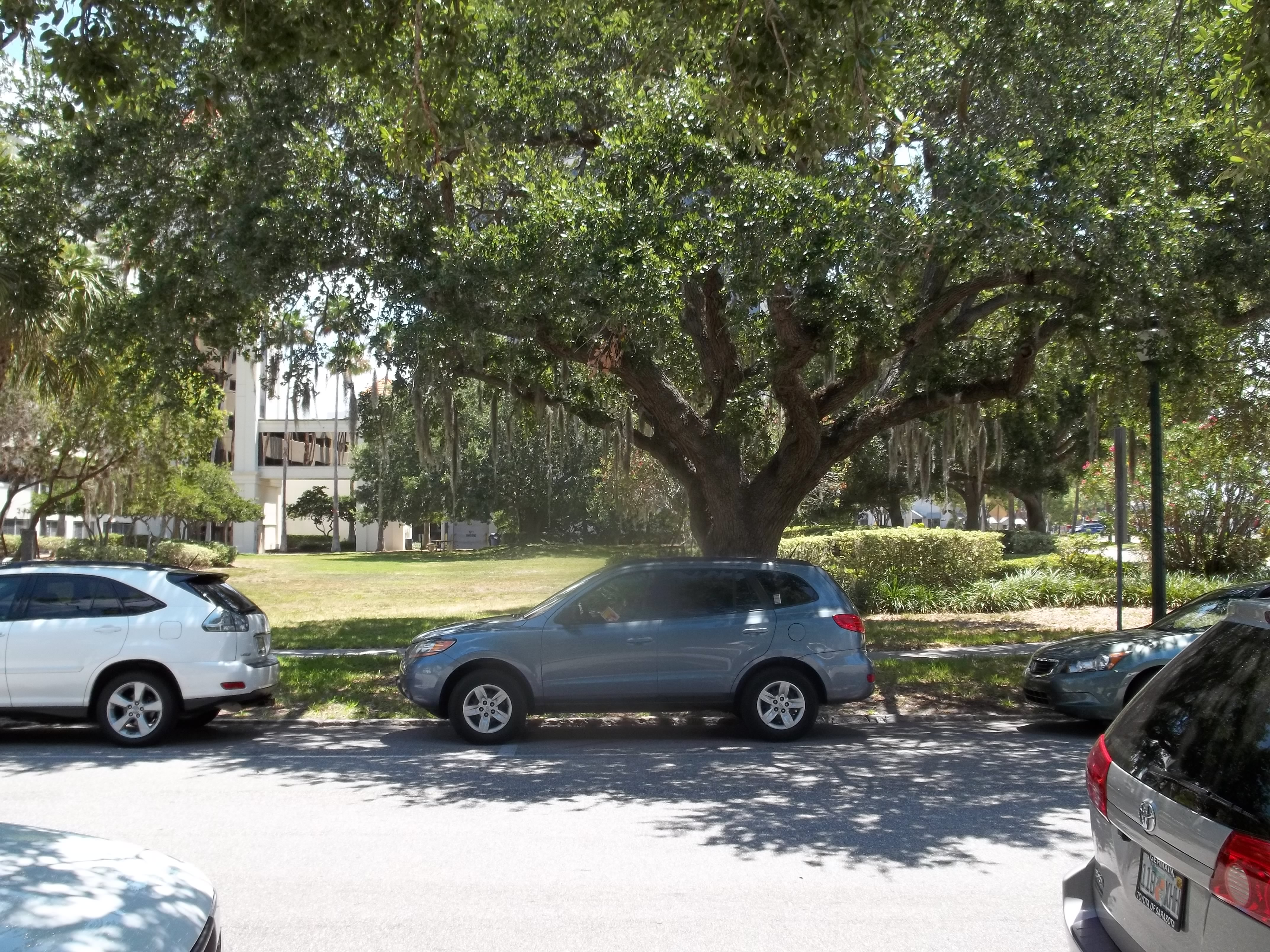 Sarasota, Florida: Downtown Sarasota Historic District: Bacon and Tomlin, Inc. site. The building has been demolished